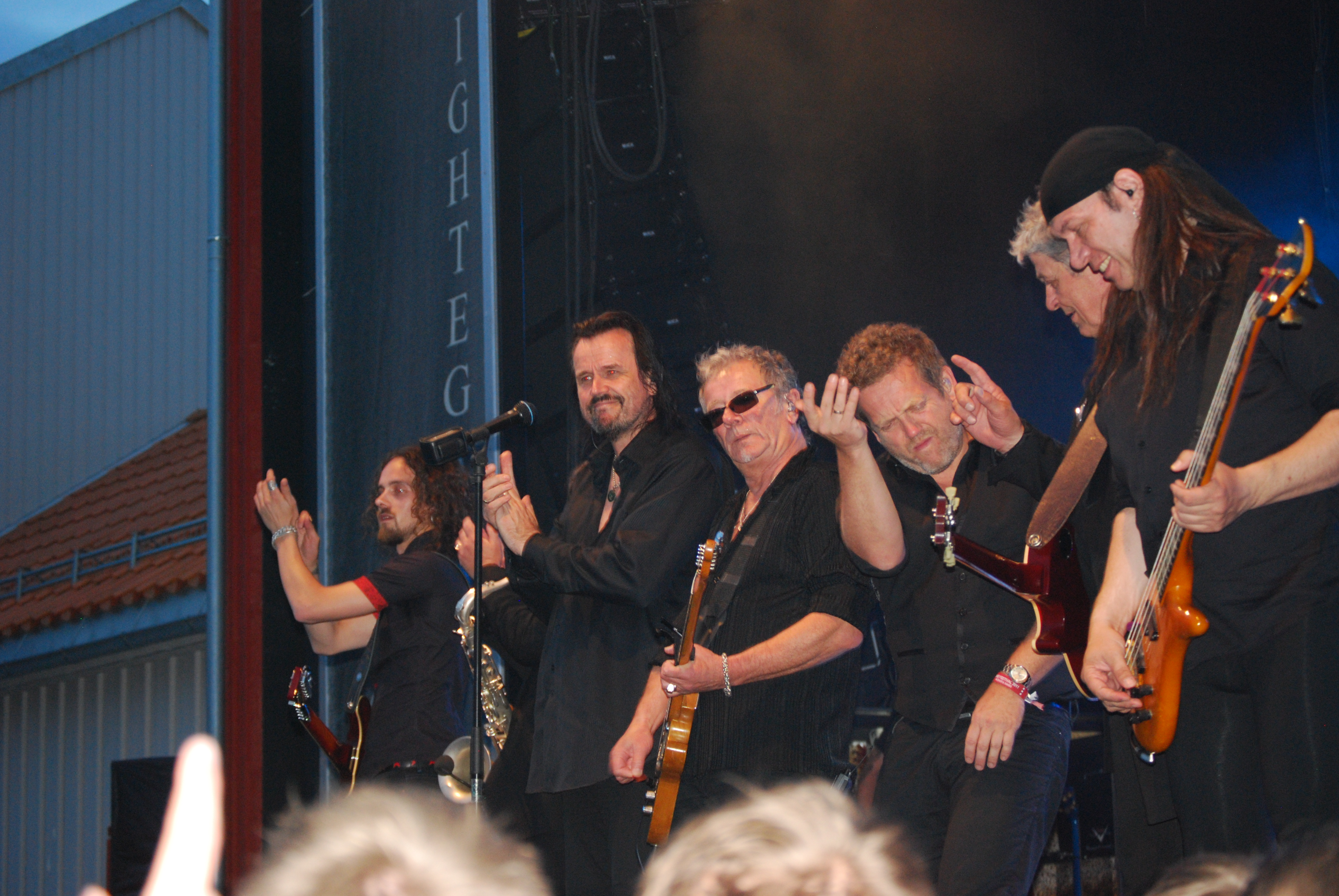 This photo was taken on July 2, 2011 using a Nikon D40X.